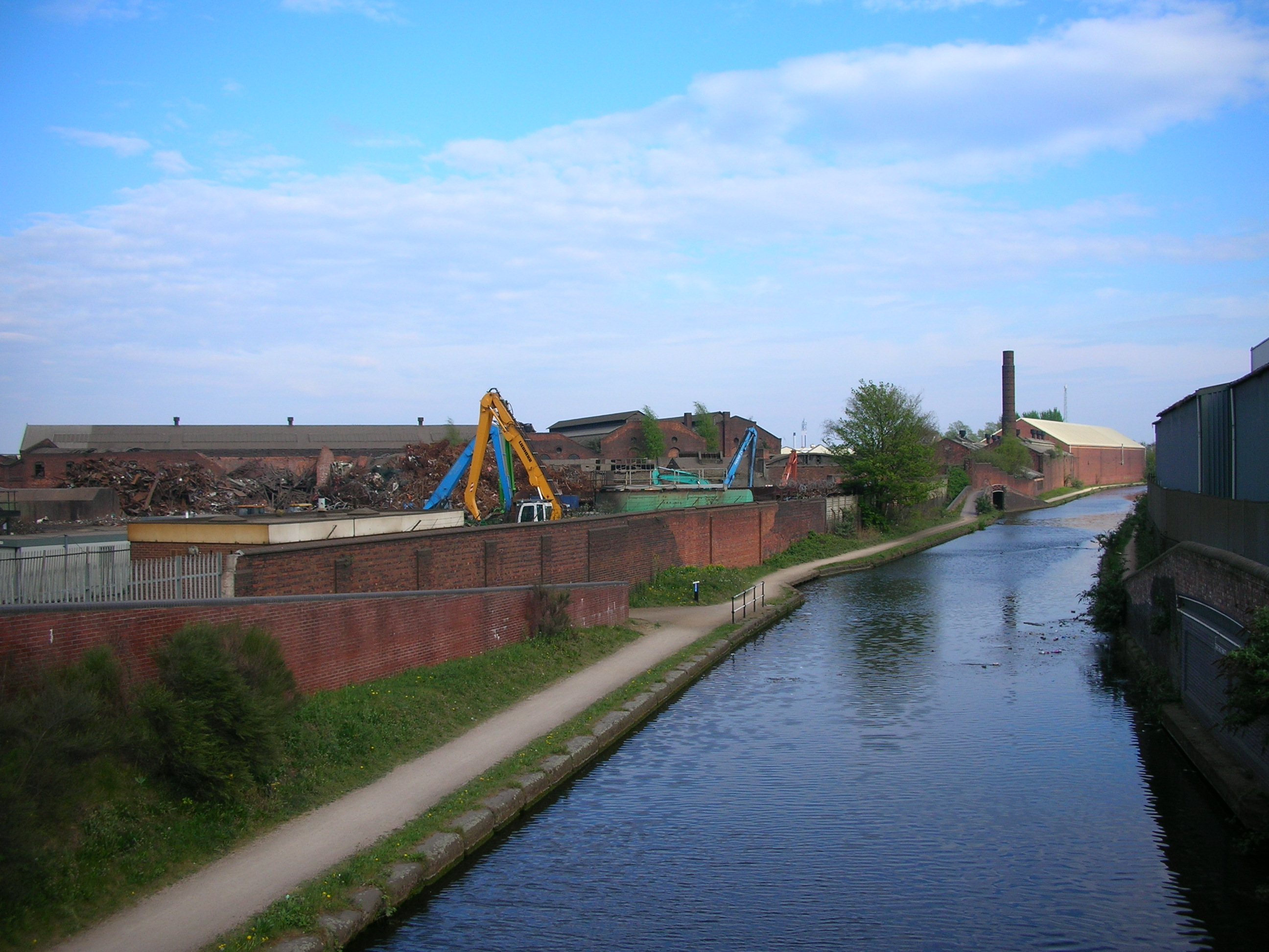 The BCN Main Line Canal. Under the chimney, the listed canal roving bridge at the western junction of the Soho Foundry Loop, now dry, south of Soho Foundry, Smethwick, West Midlands, England. Photographed by me 22 April 2007. Oosoom